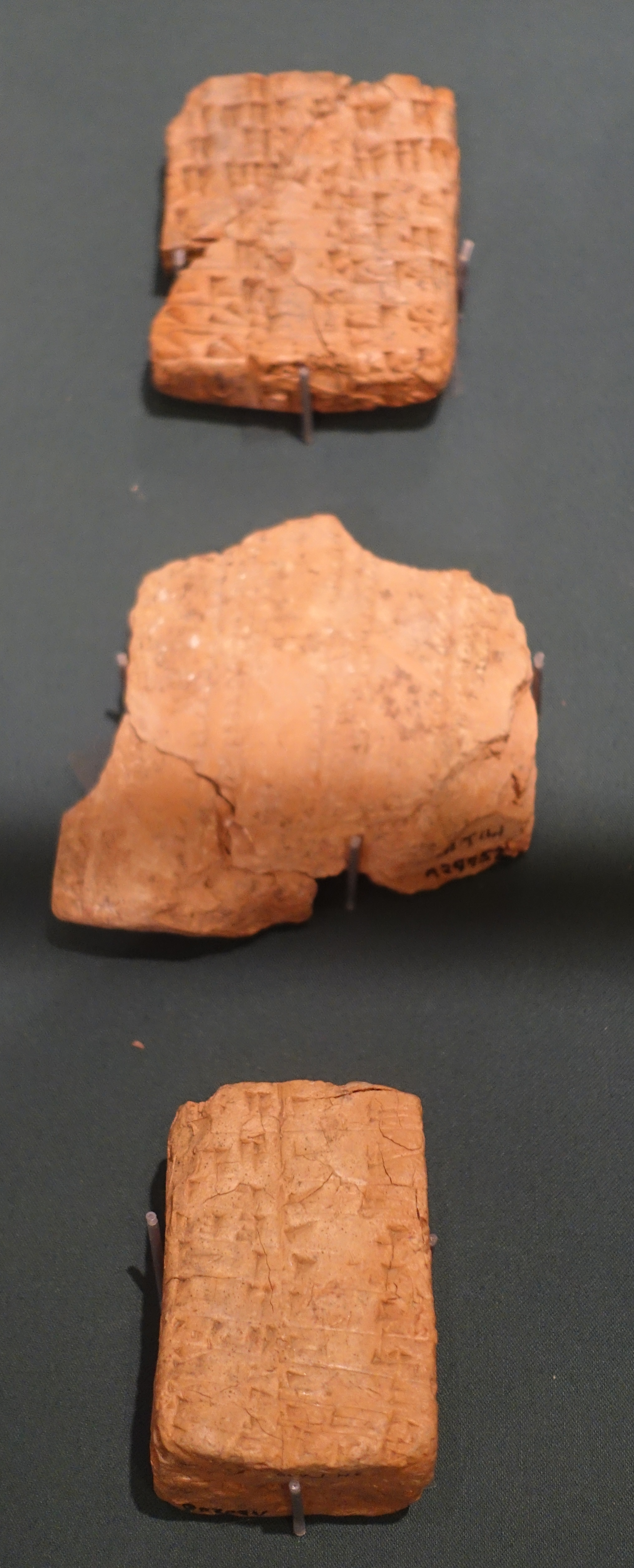 Exhibit in the Oriental Institute Museum, University of Chicago, Chicago, Illinois, USA. This work is old enough so that it is in the public domain.